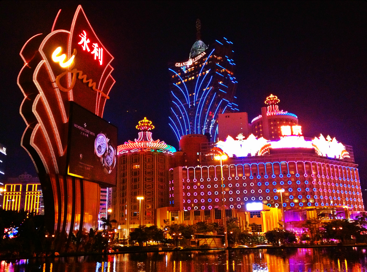 Casino Lights In Macau